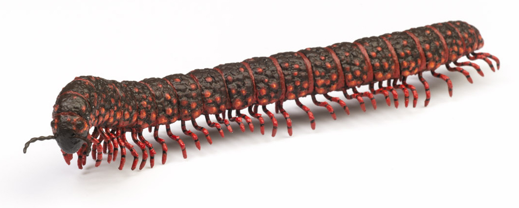 Reconstruction - 2:1 scale